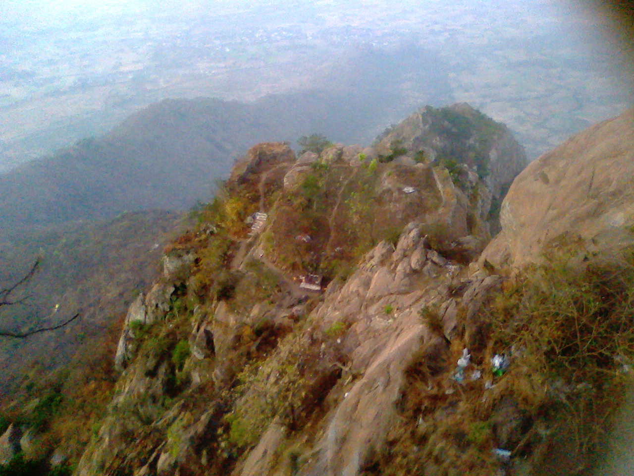 பர்வதமலைக் கோட்டை எச்சங்கள்